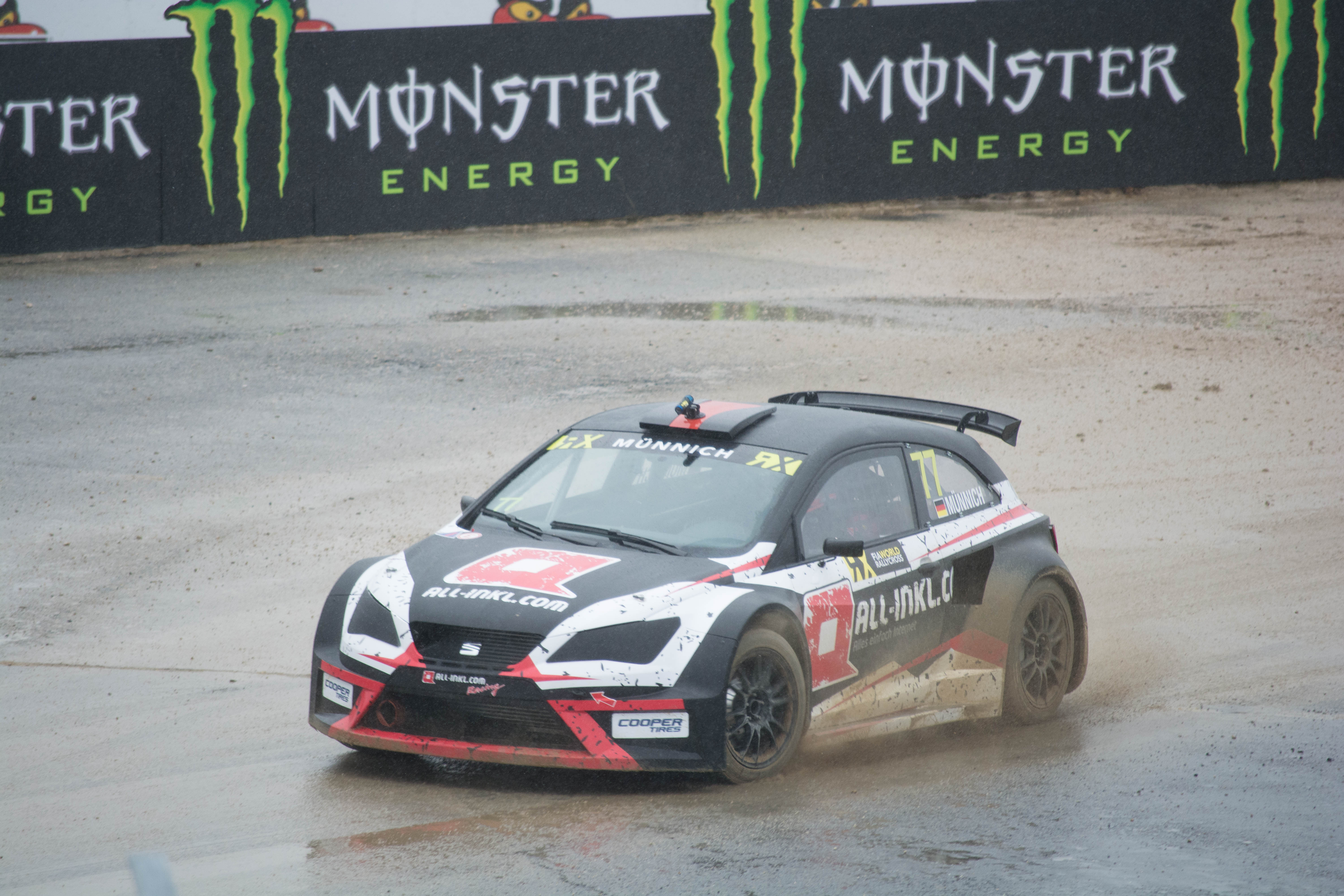 Portugal Montalegre 2016